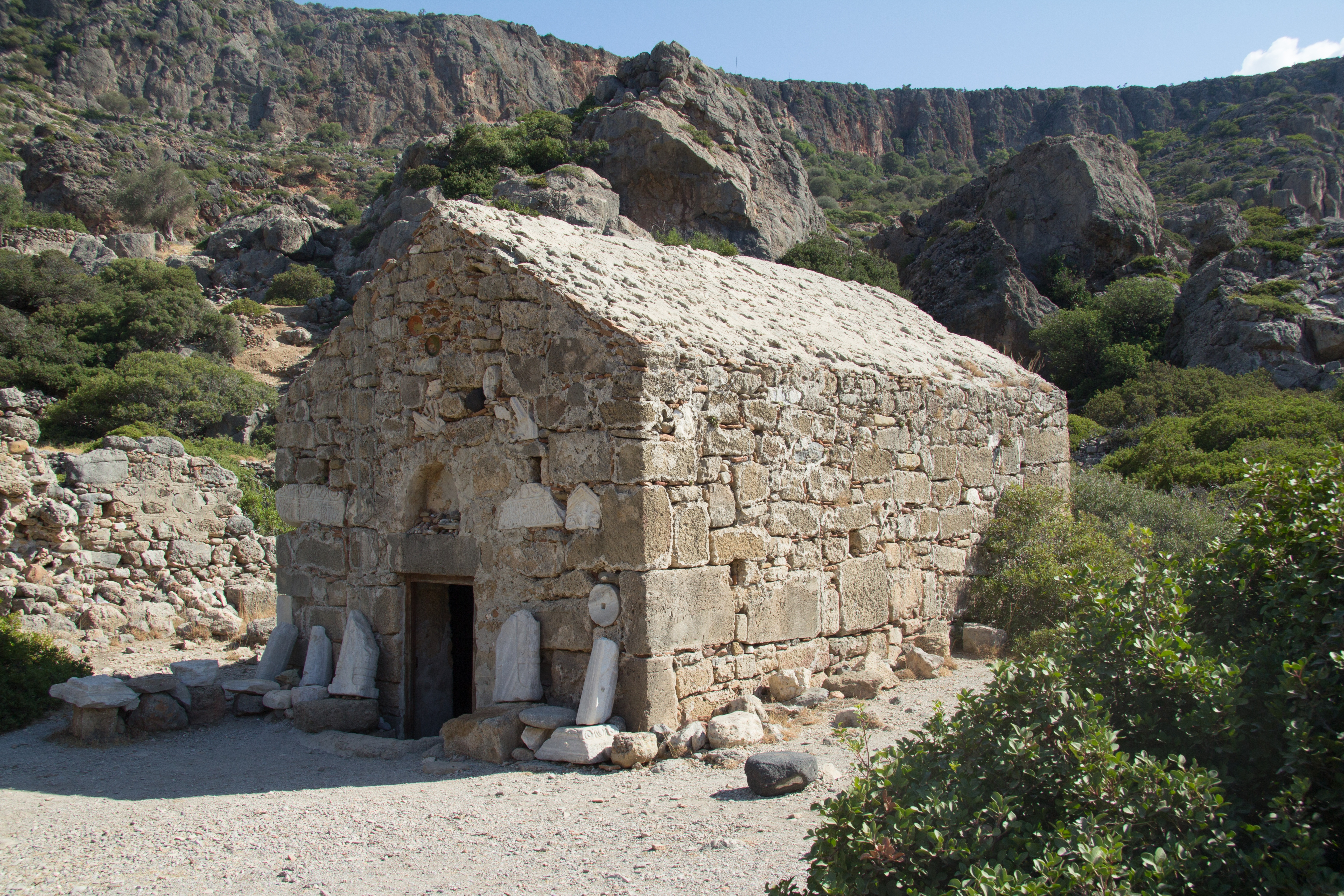 Byzantine church of the Virgin Mary, 14th century. Ruins and marble architectural fragments of a large early Christian basilica, 6th century AD. The marble built- in fragments belong to a sarcophagus of the Greco-Roman times. Lissos, Crete.